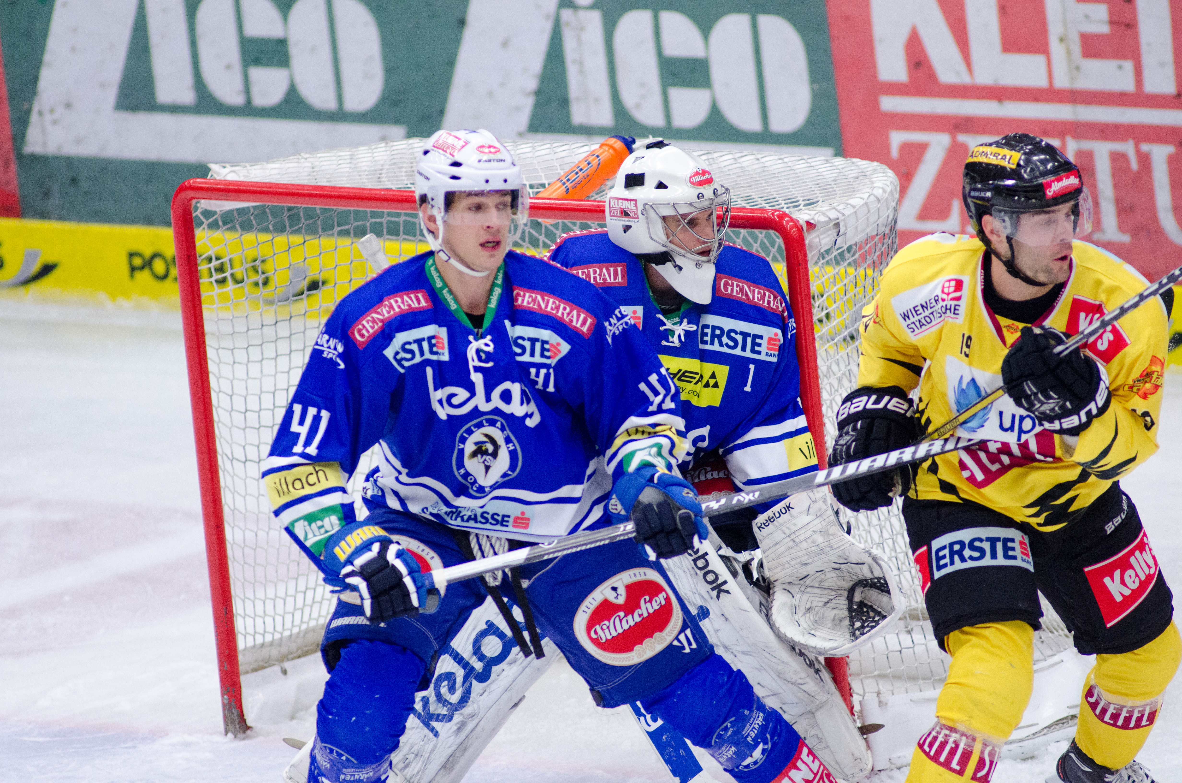 03.11.2013,Stadthalle Villach, AUT, EBEL, 33. Runde, EC VSV vs. UPC Vienna Capitals, im Bild Mario Altmann, (EC VSV, #41),Justin Keller (UPC Vienna Capitals #19),// frostworx Pictures © 2013, PhotoCredit: frostworx / Alex Micheu